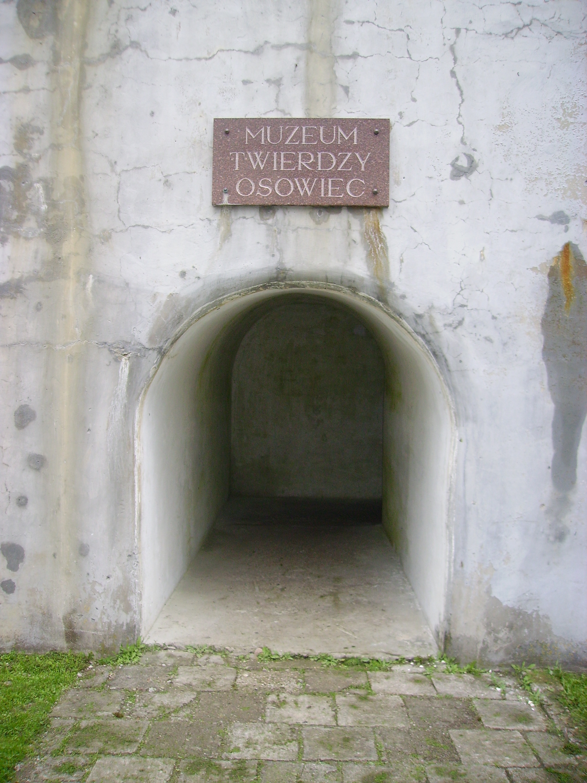 Jugular tunnel - the entrance to the Fortress Museum Osowiec